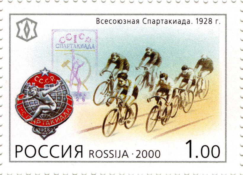 Russia stamp "1928 All Union Spartakiad"